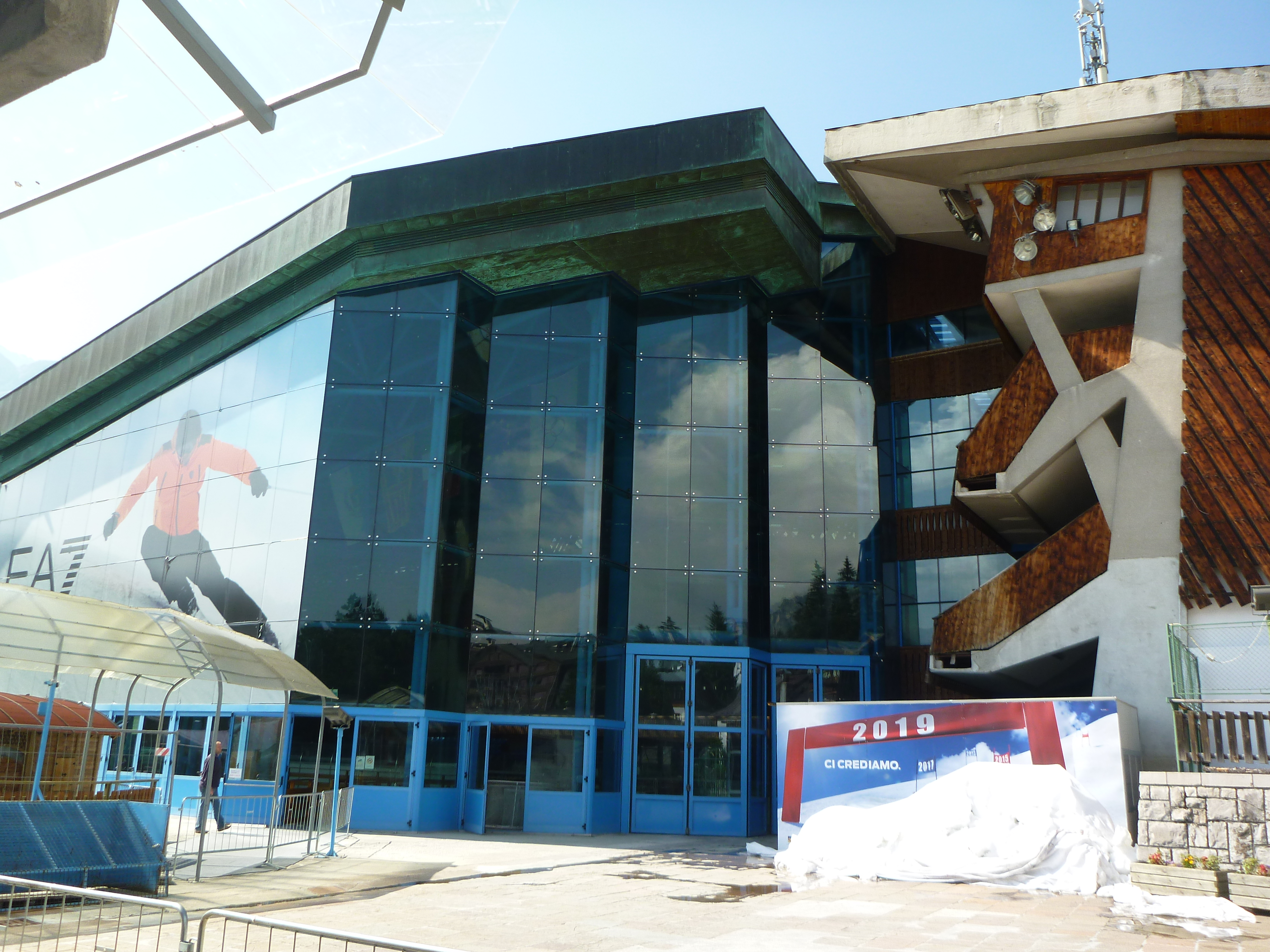 Olympic Ice Stadium (Italian: Stadio Olimpico del Ghiaccio) in Cortina d’Ampezzo